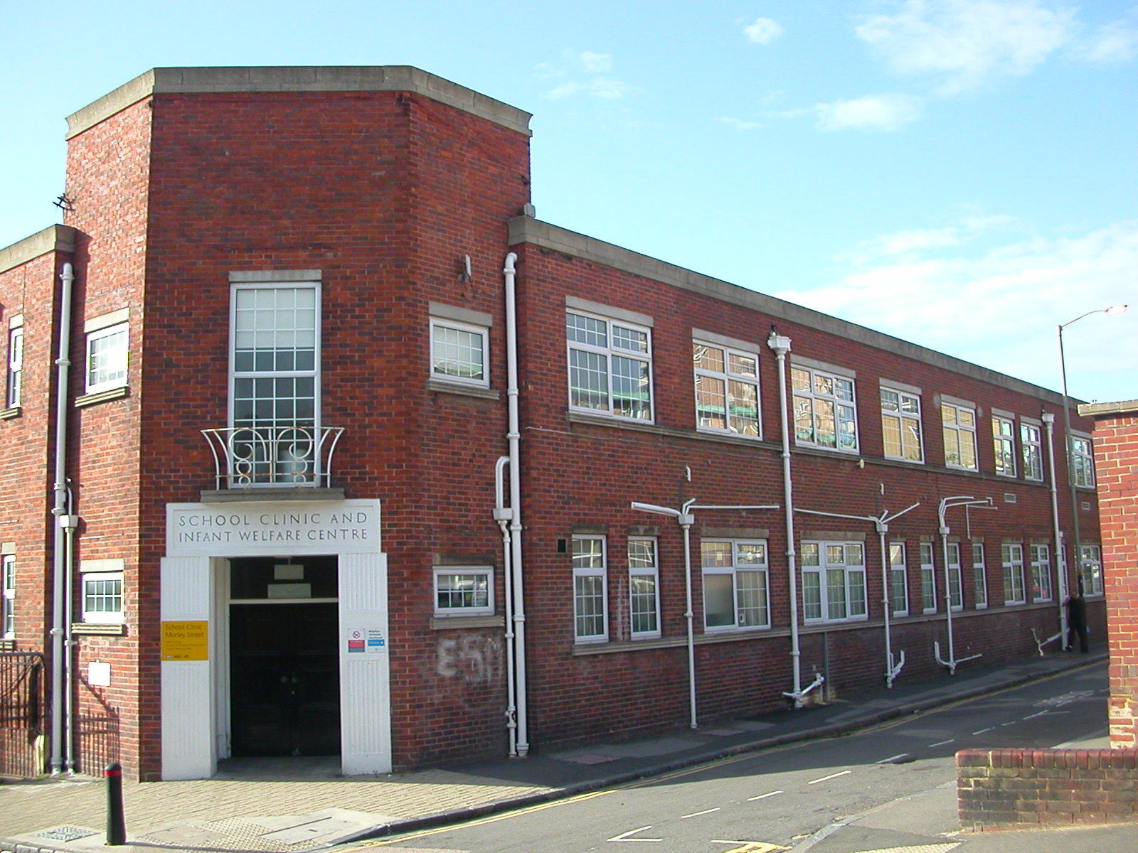 Morley Street School and Infant Welfare Clinic in the Carlton Hill area of the city of Brighton and Hove, England. Built in 1938 during a slum clearance programme in this inner-city area.